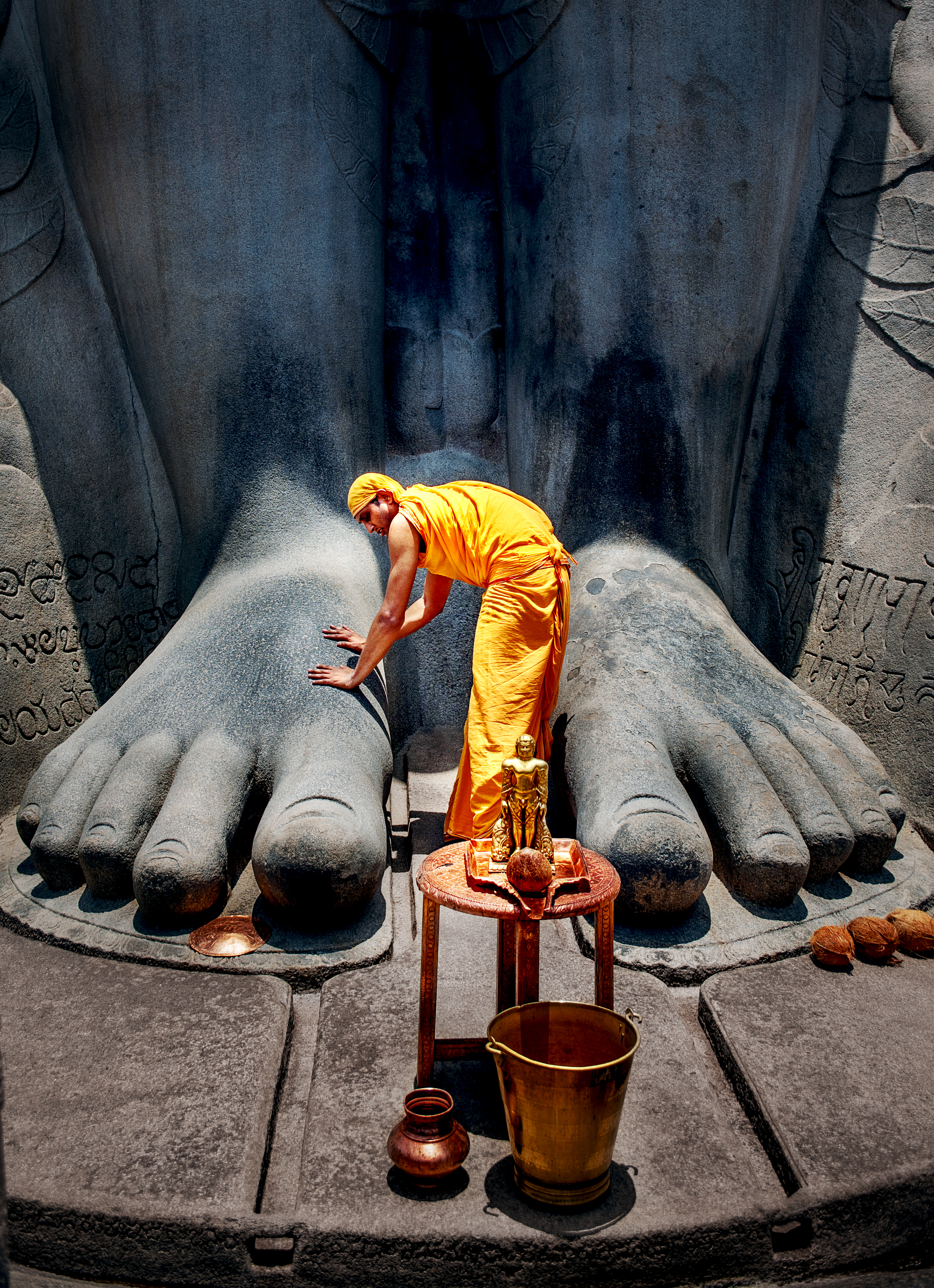 A devotee of performing his rituals at the feet of Gomteshwara (Bahubali)